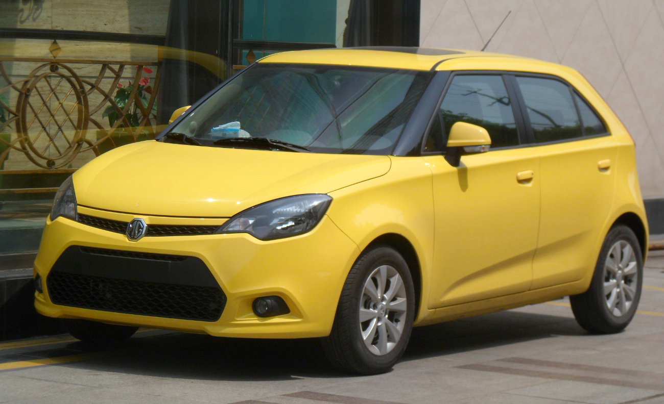 MG 3 II 01 photographed in Shanghai, China.